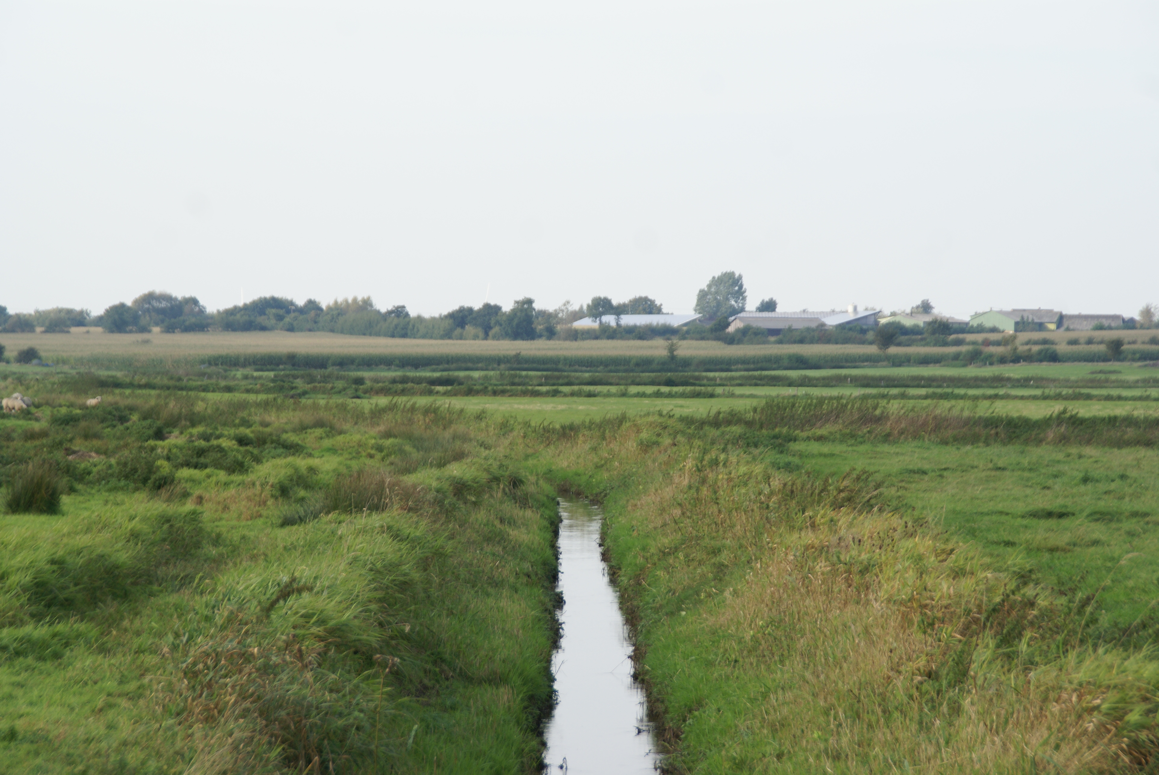 Rupel (Jörl) (Germany): The river Jörlau in the Rupel Heath